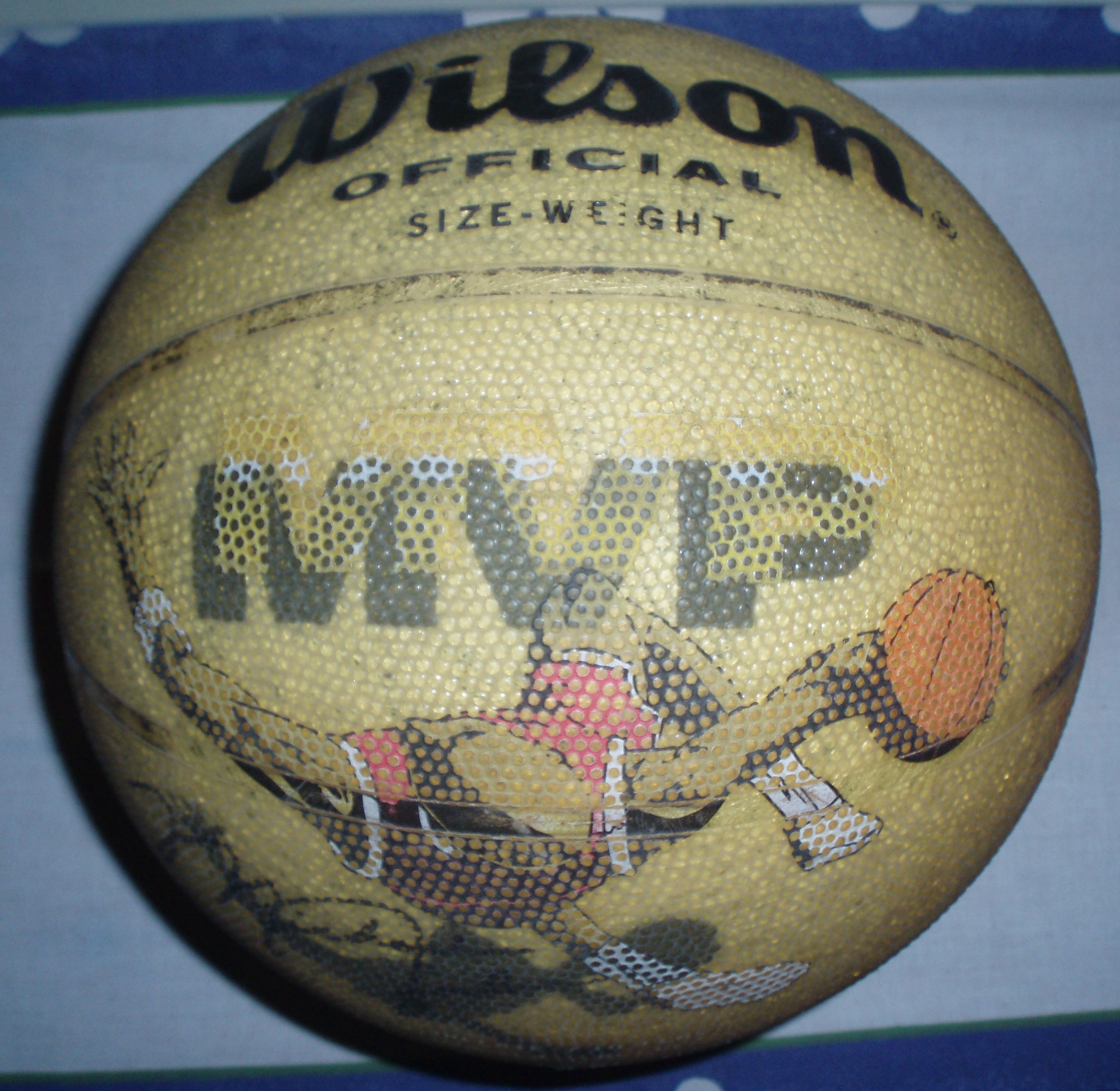 wilson basketball